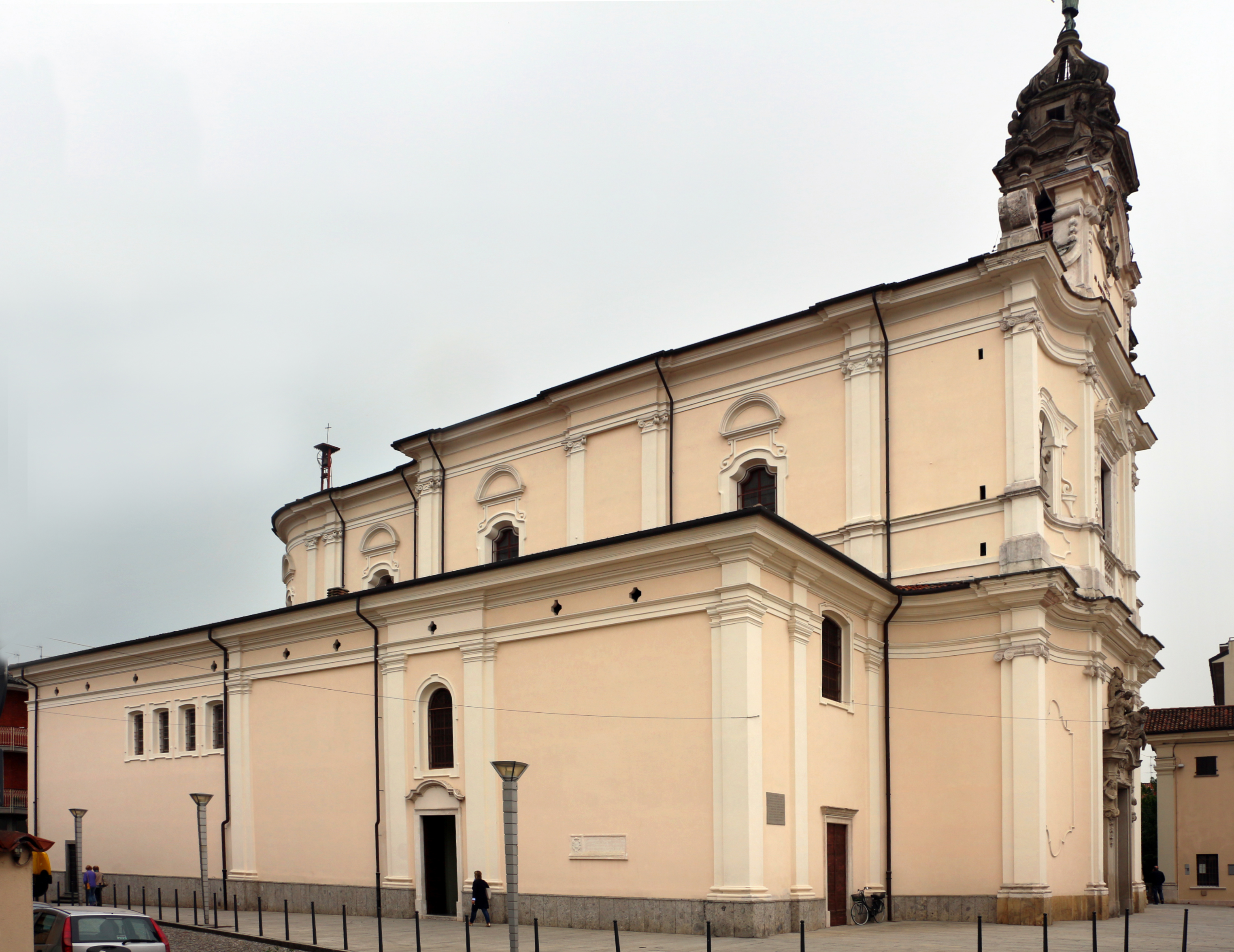 San Nicolò (Zanica)